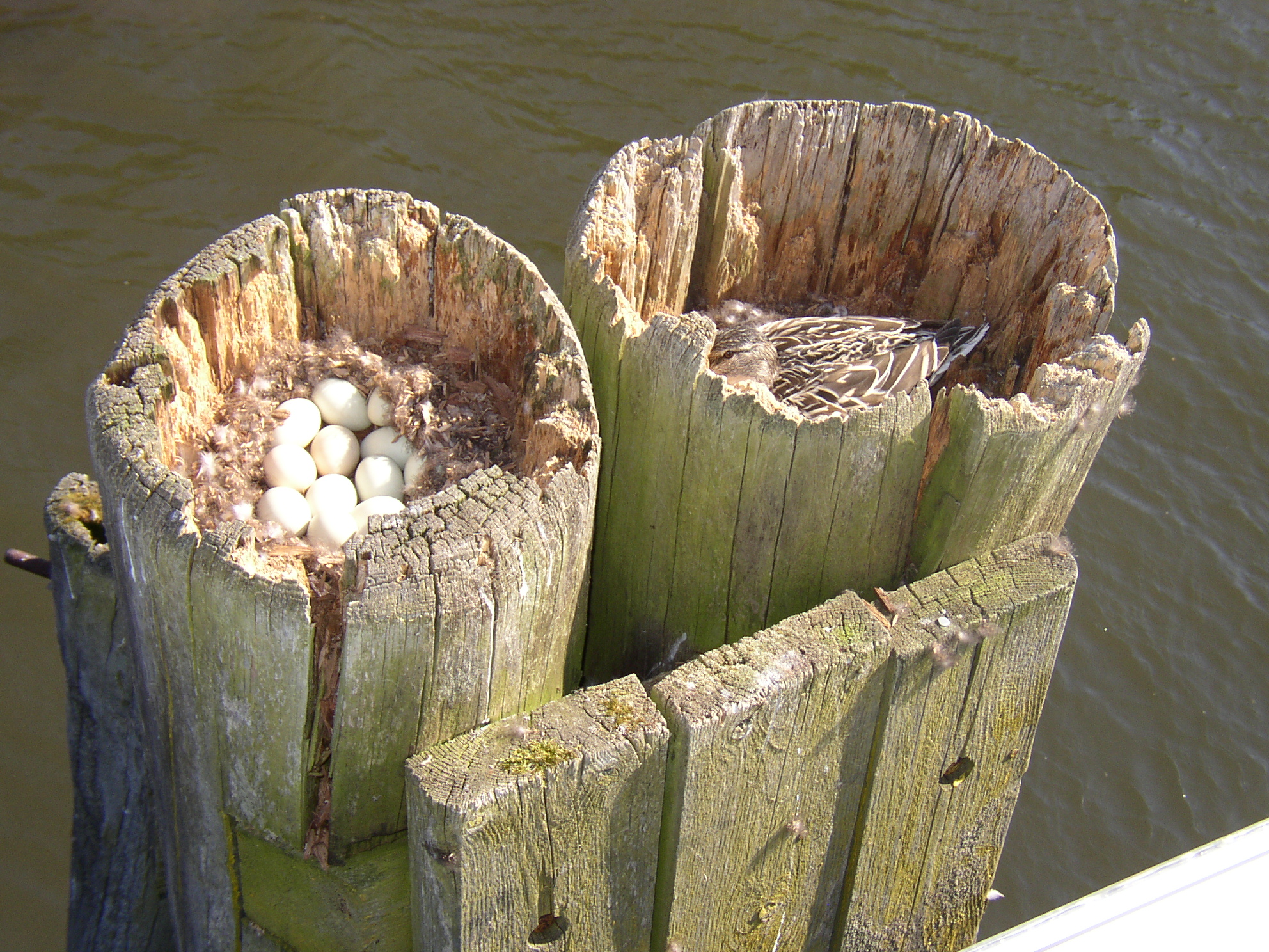 Nests of Ducks in an old wooden Dolphin (structure)